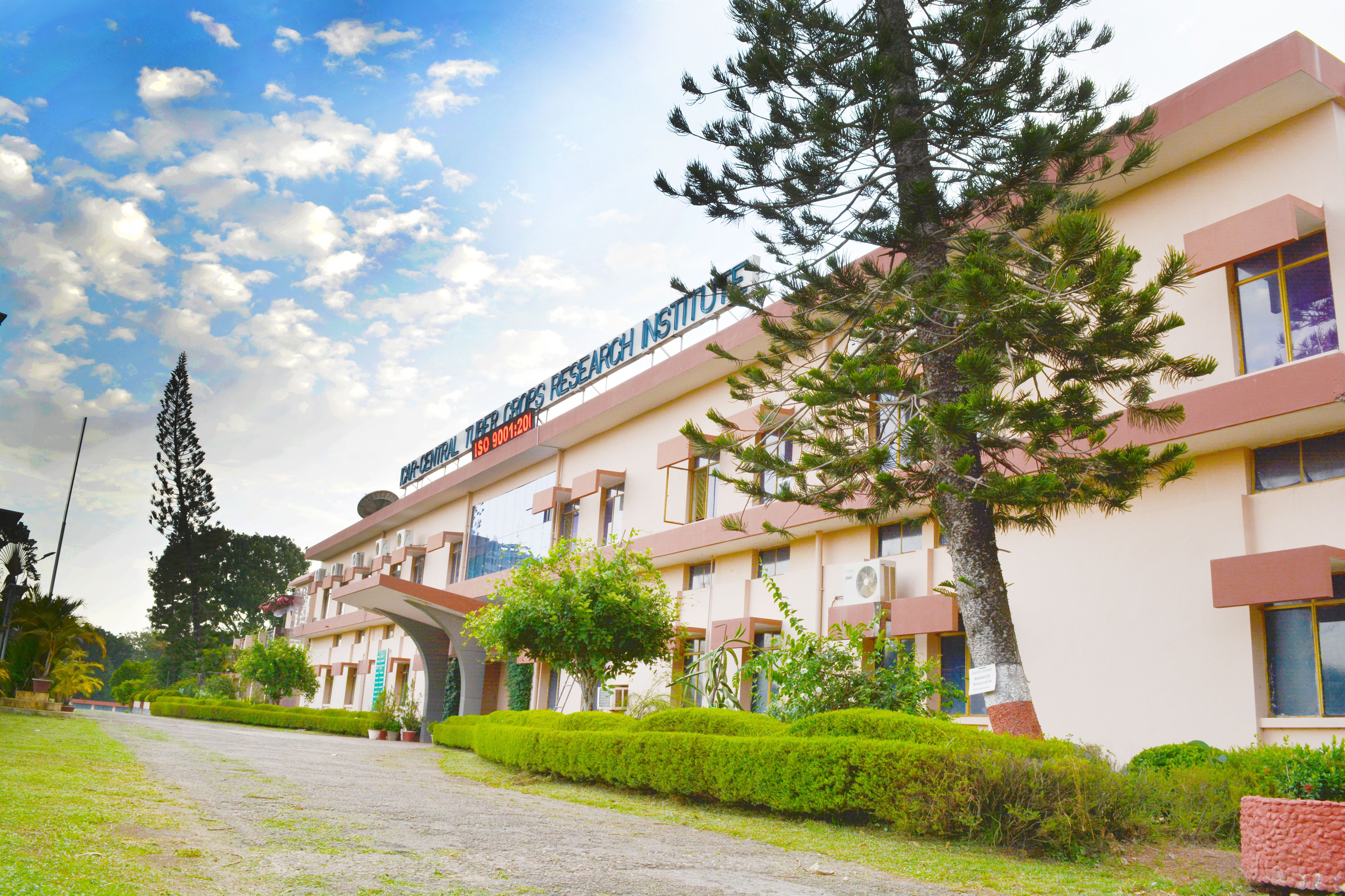 An evening view from Central Tuber Crops Research Institute, Sreekaryam. Institute main Block.